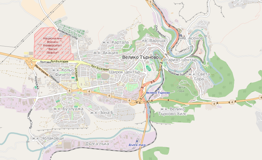 OpenStreetMap - Map of Veliko Tarnovo